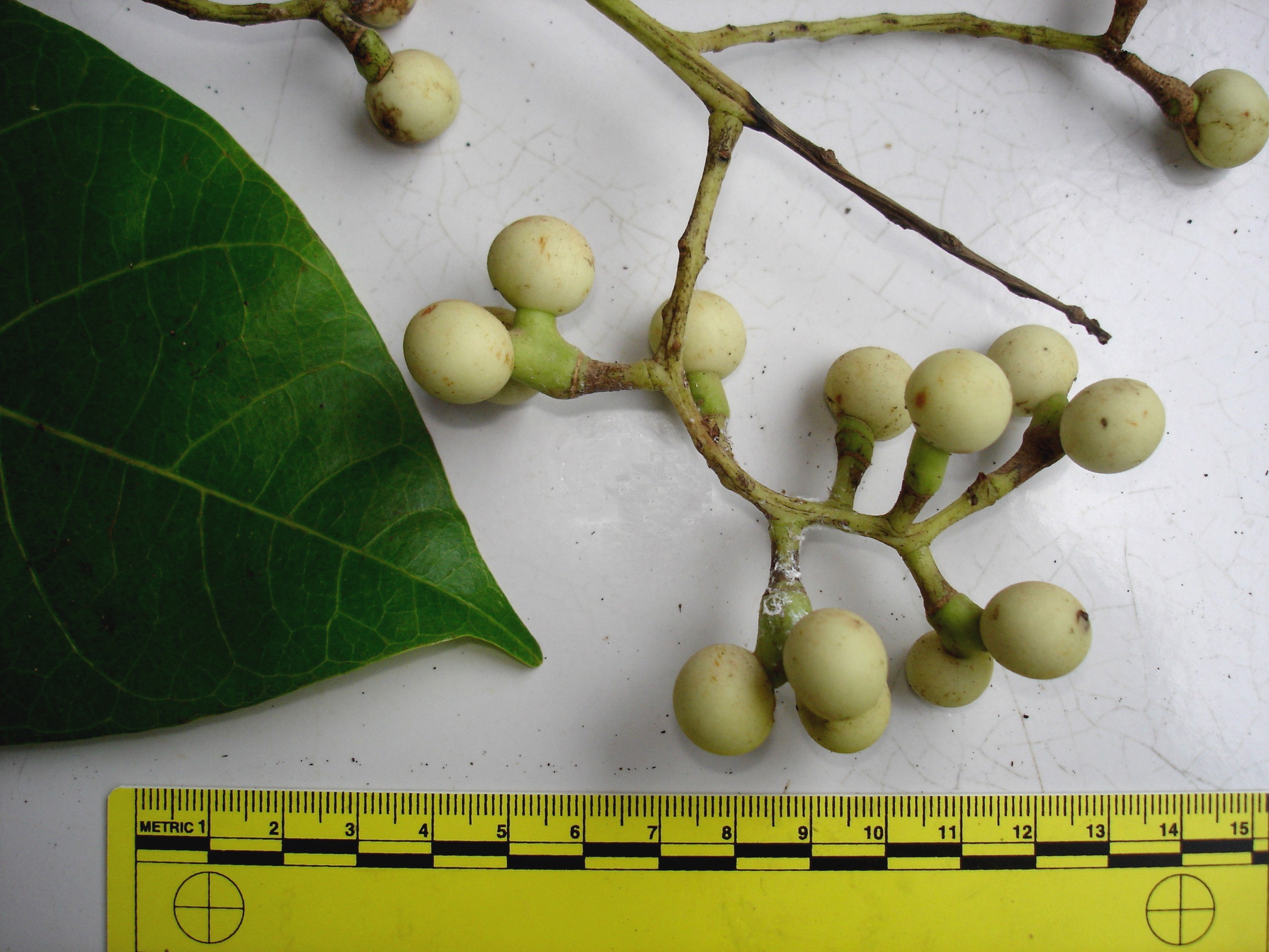 closeup of newly harvested fruits of the Indian berry plant (Anamirta cocculus), northern part of Buton Island, Southeast Sulawesi, Indonesia